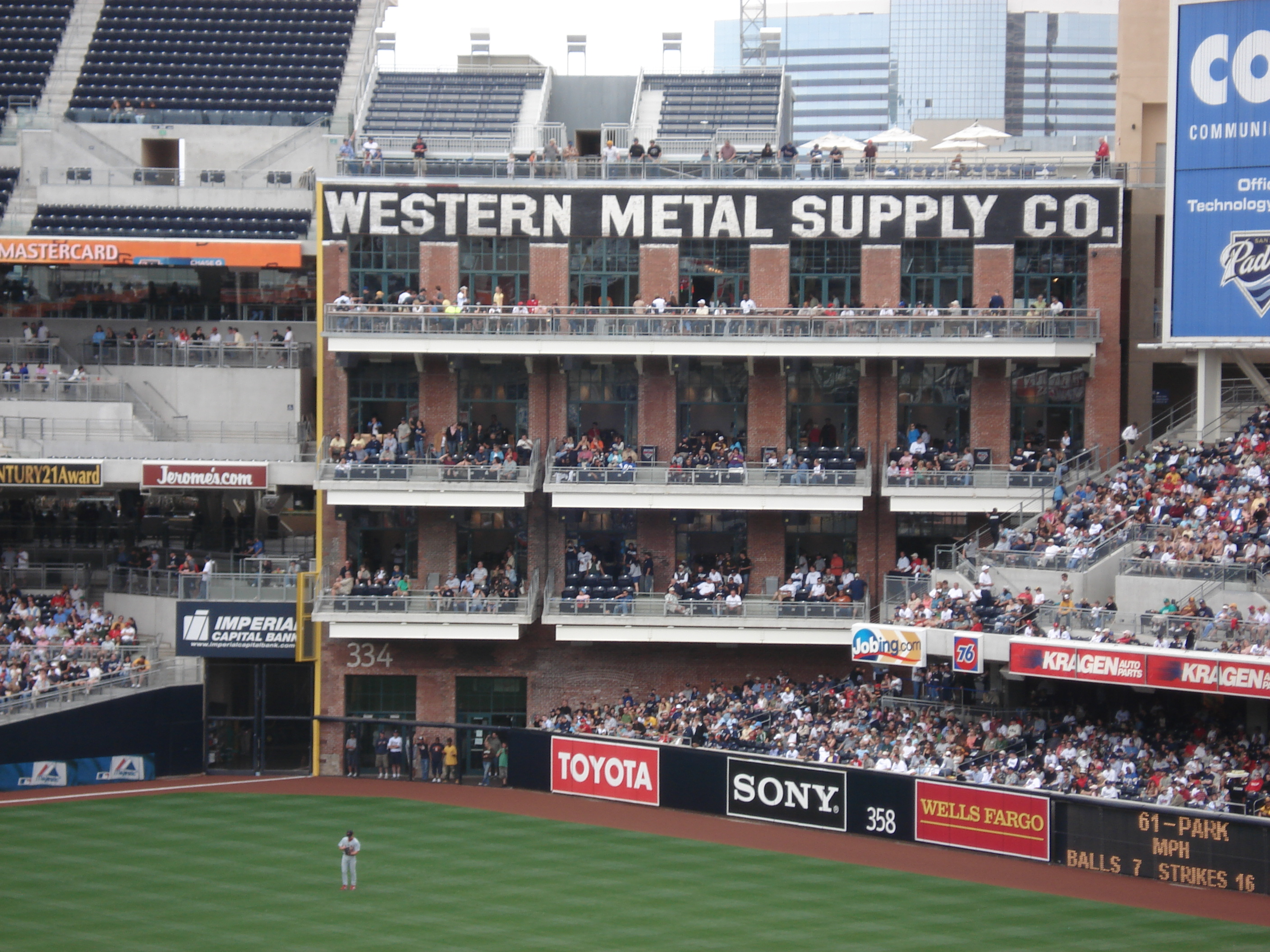 The Western Metal Supply Co. Building (commonly referred to as the Western Metals Building) in PETCO Park. The historic exterior of this building was preserved and incorporated into the construction of PETCO Park, which opened in 2004. The building is located in the left field corner; the yellow metal stripe on the corner of the building serves as PETCO Park's substitute for the usual left field foul pole. (Therefore, a ball striking the face of the building seen here is a fair ball home run, while the side of the building to the left - not visible from this angle, just beyond the yellow stripe - is foul territory.) The interior of the building has been converted into suites (with cantilevered seating balconies, seen here on the second and third floors), dining facilities (on the fourth floor), a viewing terrace (on the roof), and the stadium gift shop (on the ground floor, including access to the standing-room-only area beneath the 334 marking). One of the stadium's two auxiliary entrances is located adjacent to the back corner of the building, at the T intersection of Seventh Avenue and K Street. (The other is behind the right field bleachers at Tenth Avenue and K Street, also a T intersection as the portion of K between Seventh and Tenth has been converted into a pedestrian concourse around the outfield seating areas. The main entrance is behind first base on the Tenth Avenue side.)